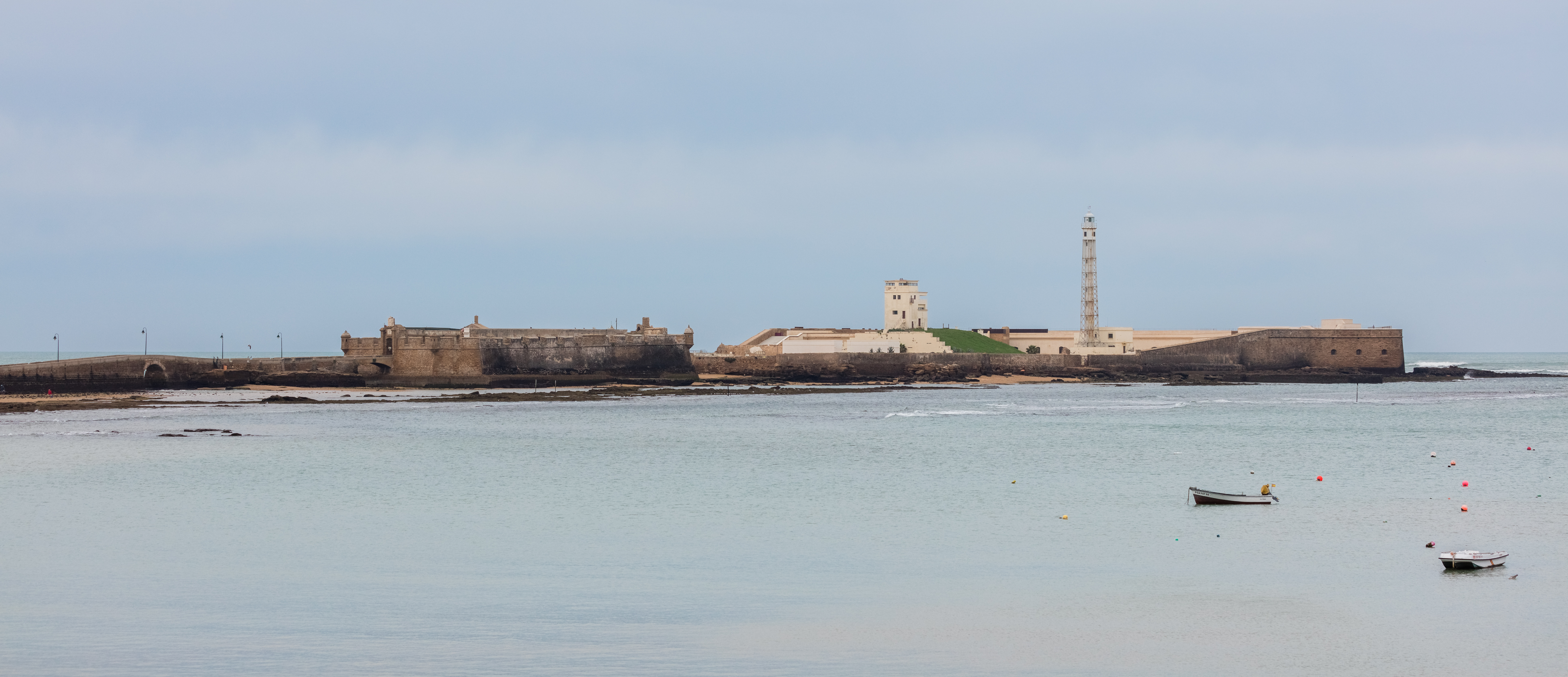 San Sebastián lighthouse, Cádiz, Spain